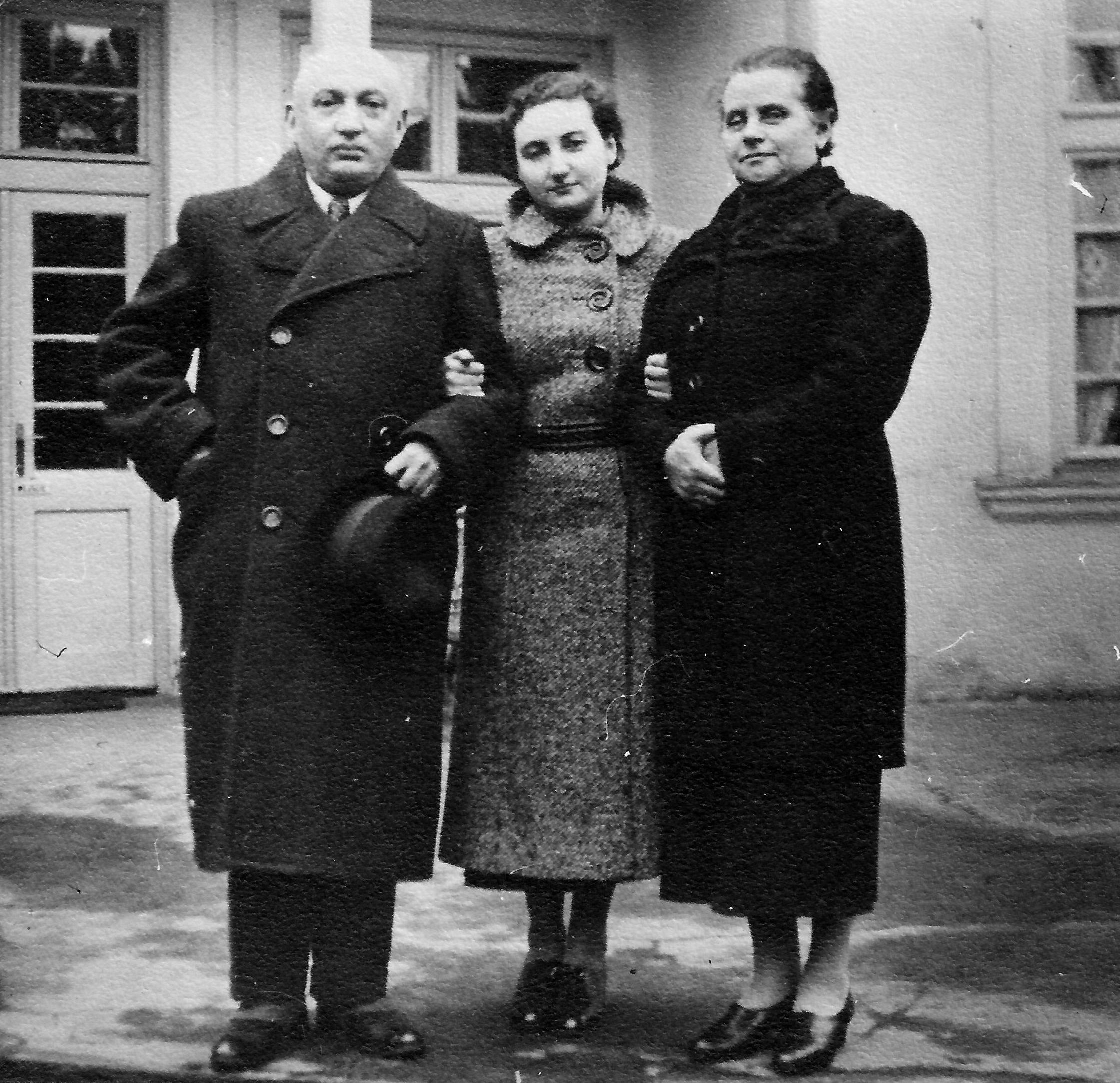 Hebrew/Yiddish Warsaw Publisher Benjamin Szymin (1880-1942) with his wife Regina (Rifka) and their daughter Halina Szymin-Shneiderman, Otwock 1937